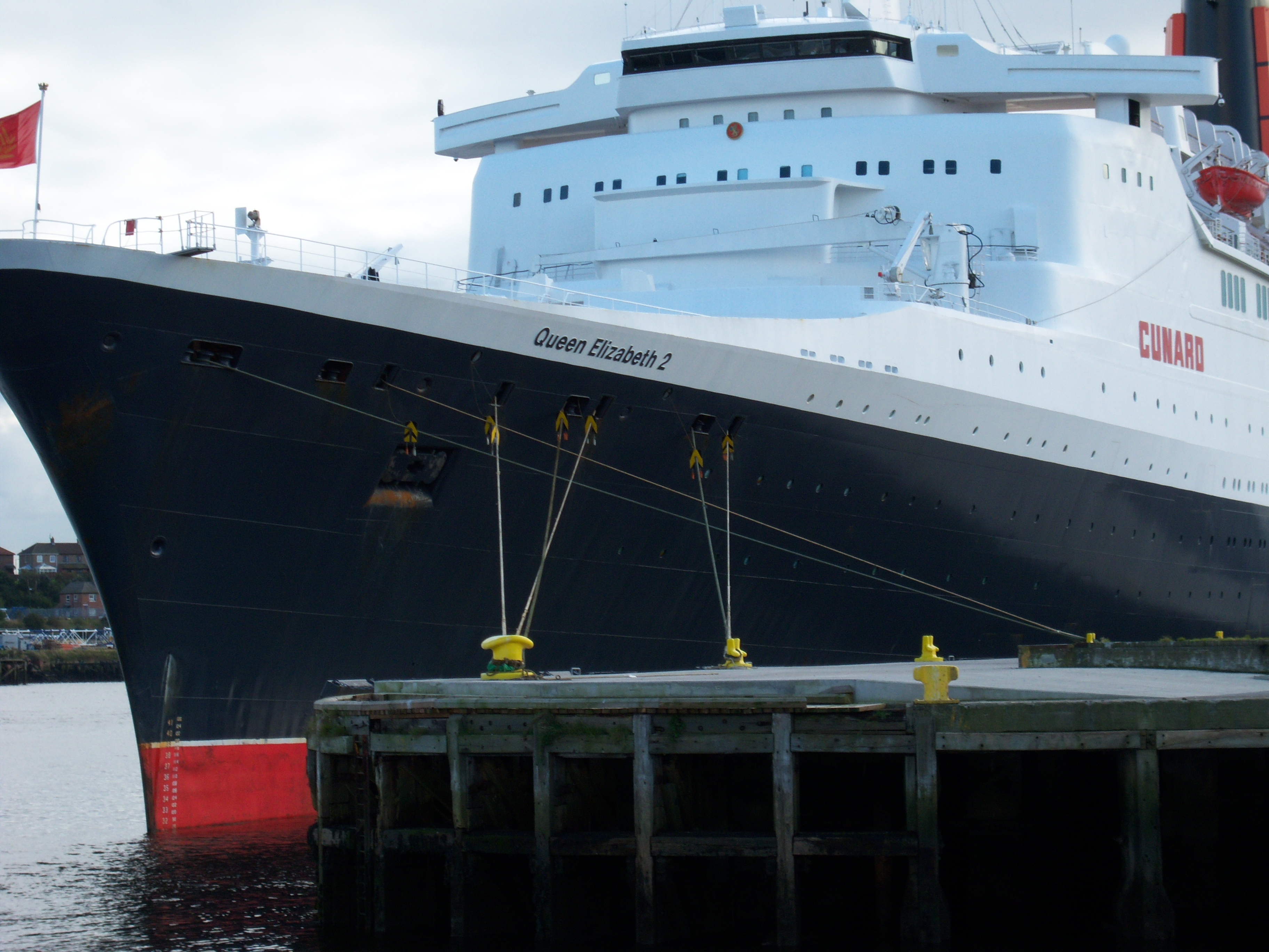 Bow of the RMS Queen Elizabeth 2 docked at Northumbrian Quay, Coble Dene, Port of Tyne, Newcastle International Ferry Terminal, North Shields, on her final visit to the River Tyne, England, UK